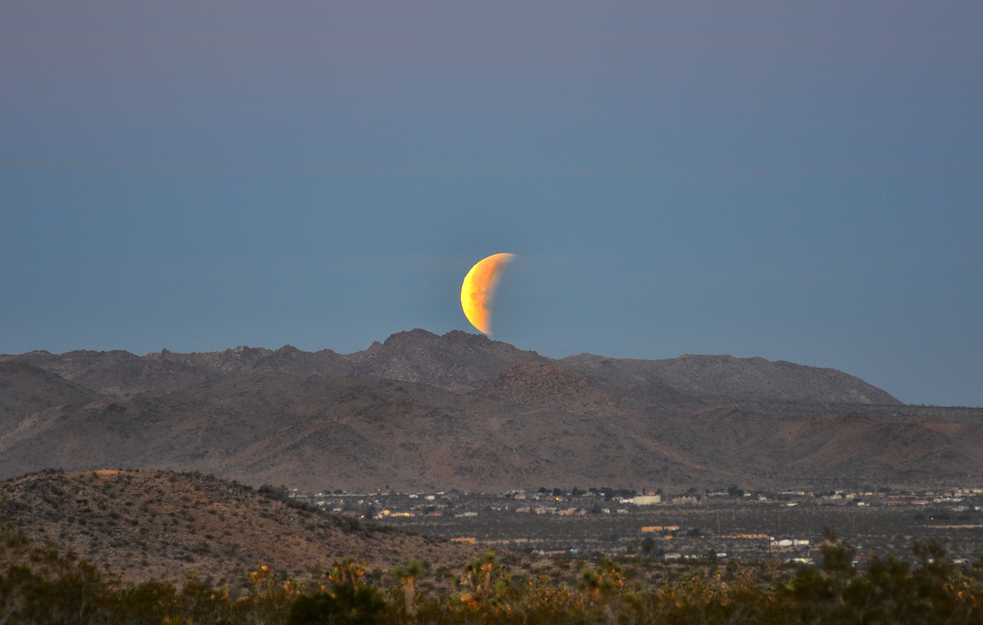 Full Moon-Supermoon-Elipse-Moonset-01-31-2018 shot with Nikon D-90, 80-200mm Nikkor Lens, at 200mm